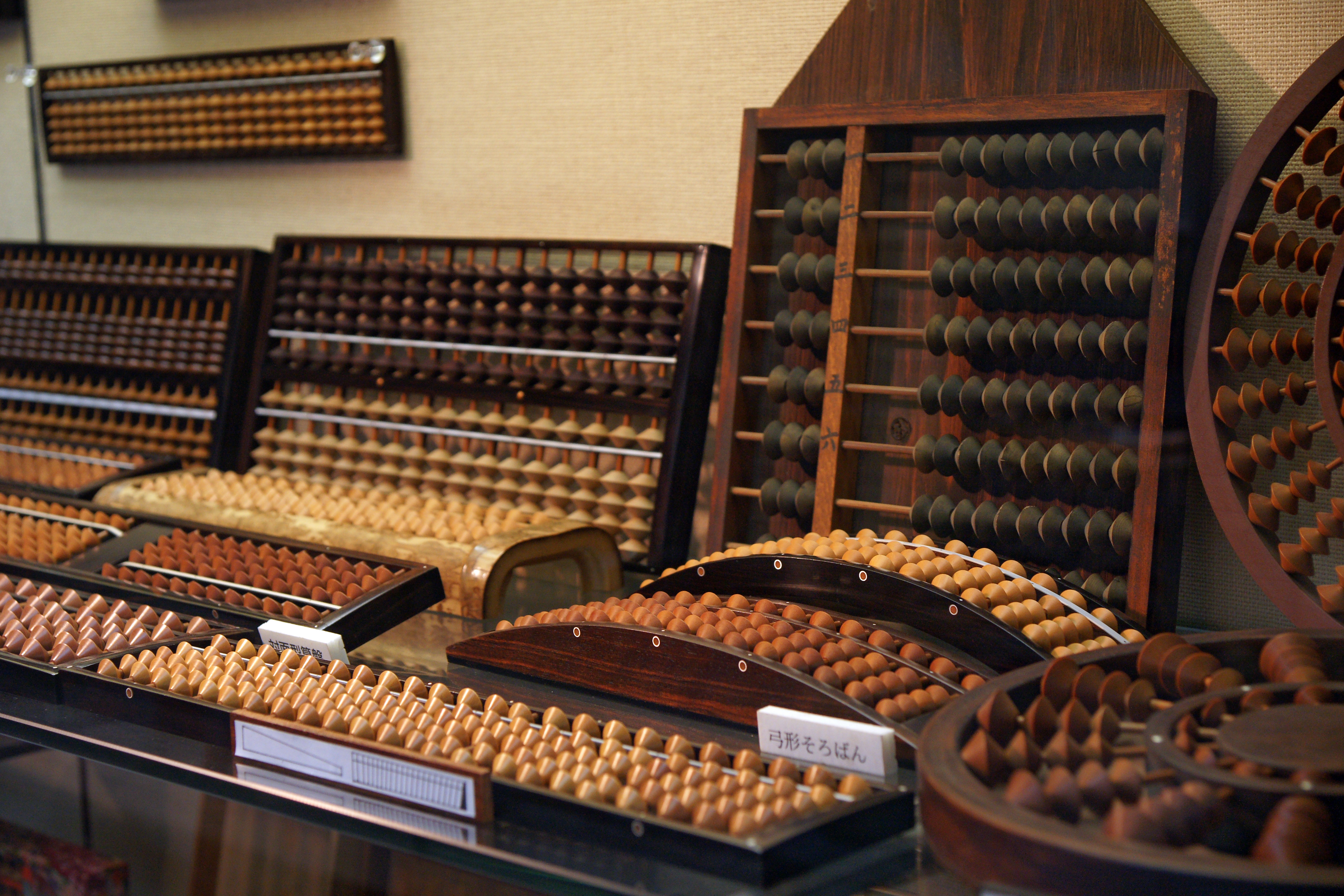 Ono City Tradition Industrial Hall in Ono, Hyogo prefecture, Japan.